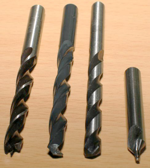 (from left to right) A borer for wood, metal, concrete and a centre drill